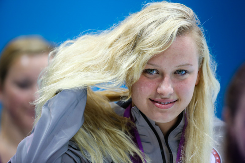 Jessica Long London